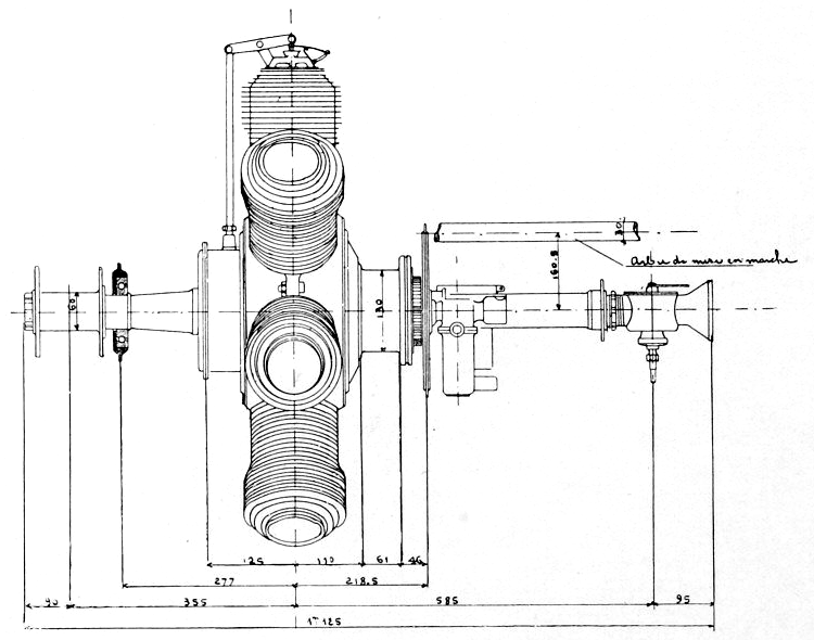 Gnome Sigma (60 hp), longitudinal elevation, as shown in October 1913 Gnome engine catalog.